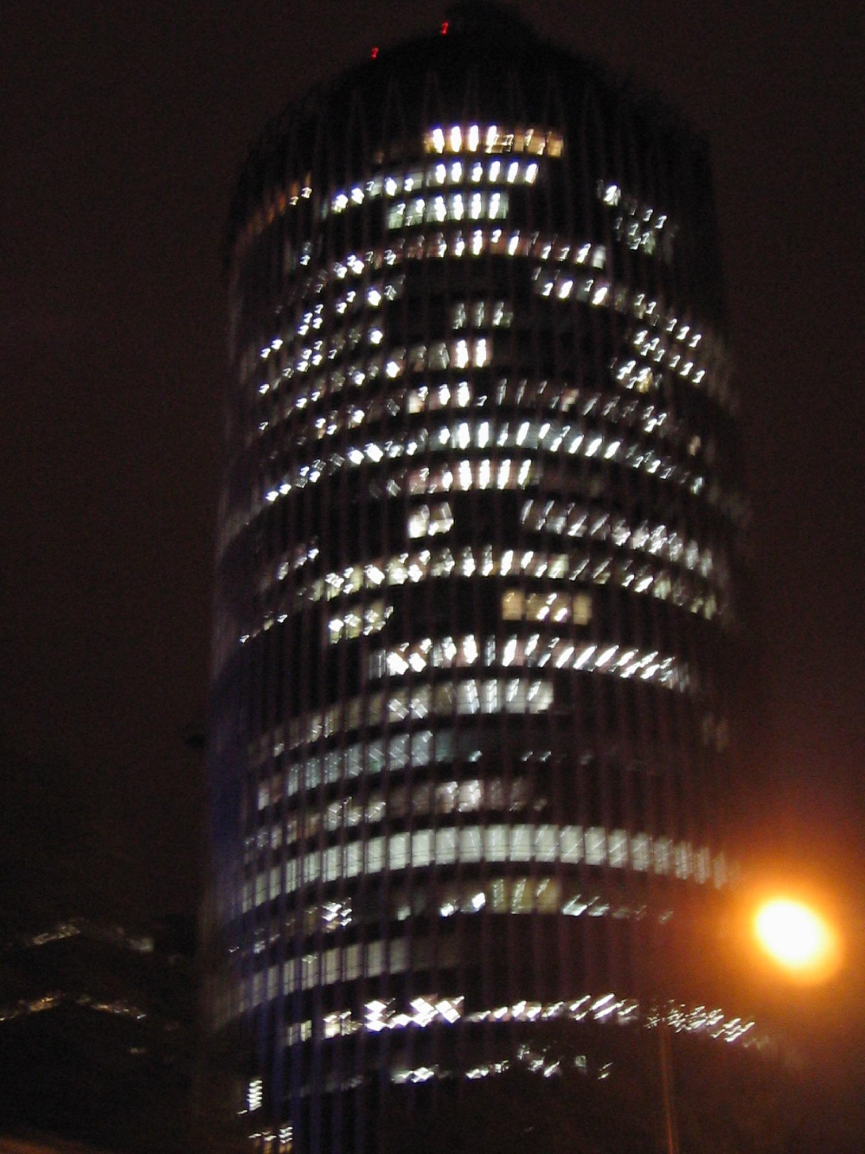 Torre Europa at night in Madrid